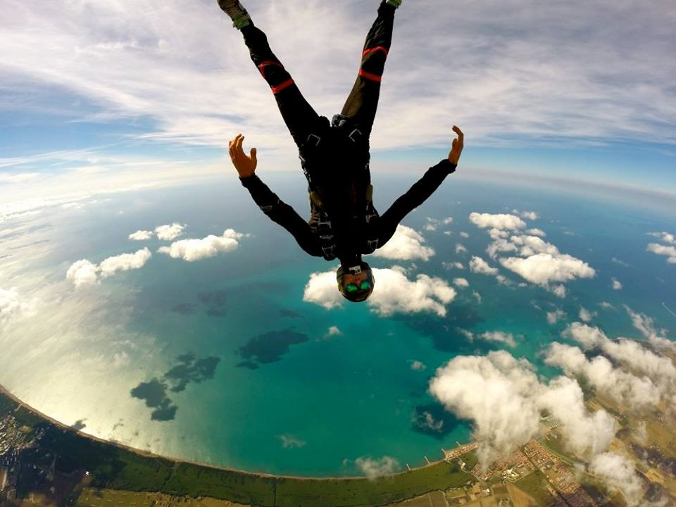 Dobromir Slavchev skydiving, freefly